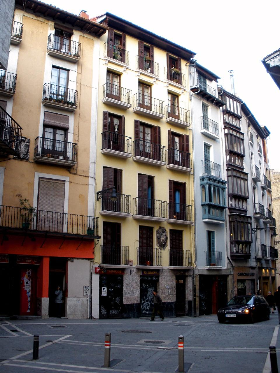 Aspecto de la Calle de Jarauta, en Pamplona (Navarra, España).